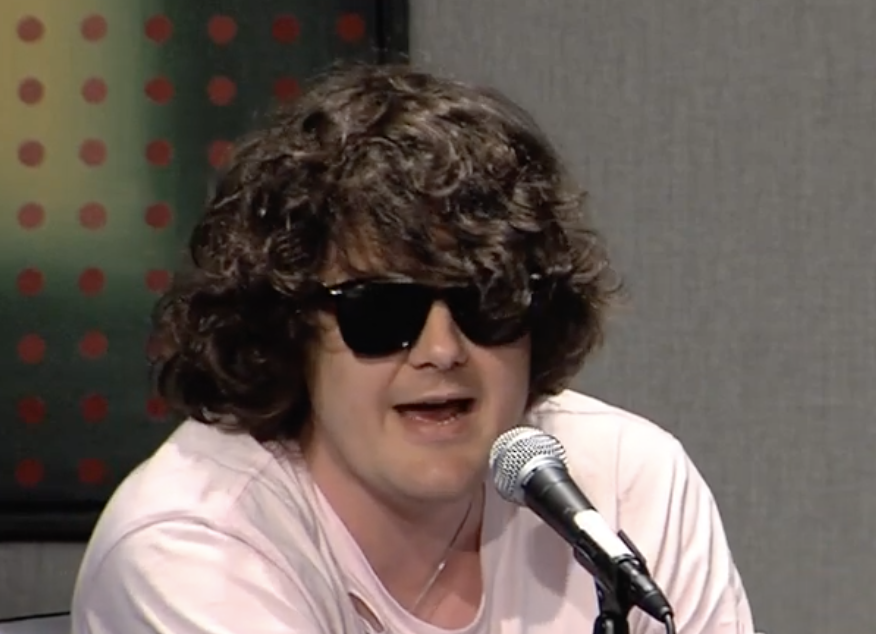 Simon Hanselmann speaking at the Small Press Expo, 2019